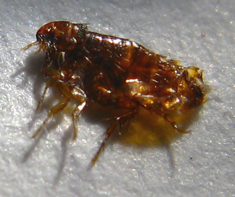 Cat flea (Ctenocephalides canis)